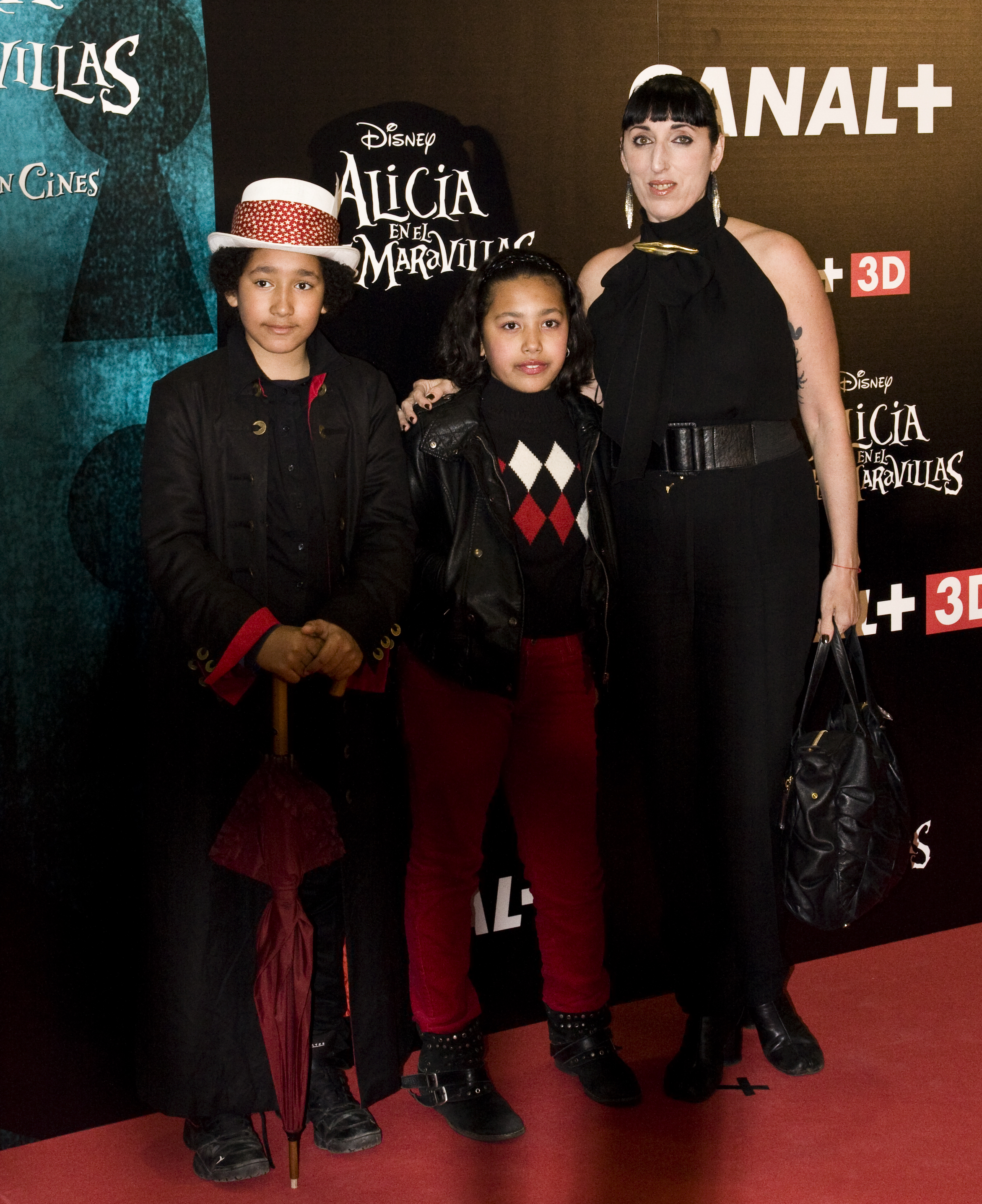 Rossy de Palma Spanish actress with her children at the photocall of Alice in Wonderland in 2010.